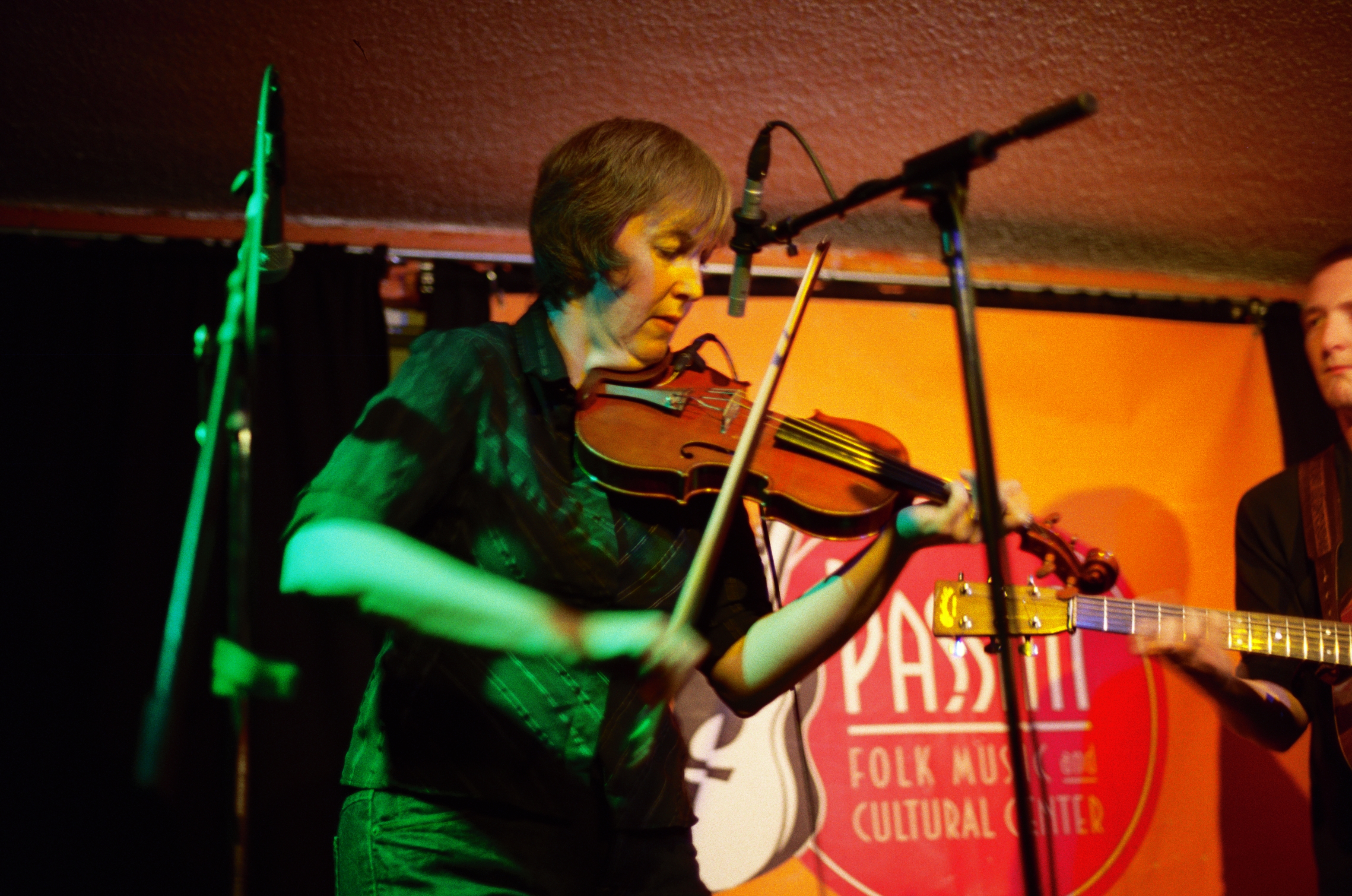 John Doyle at Club Passim in Cambridge, Massachusetts with Special Guest Liz Carroll on June 21, 2007.